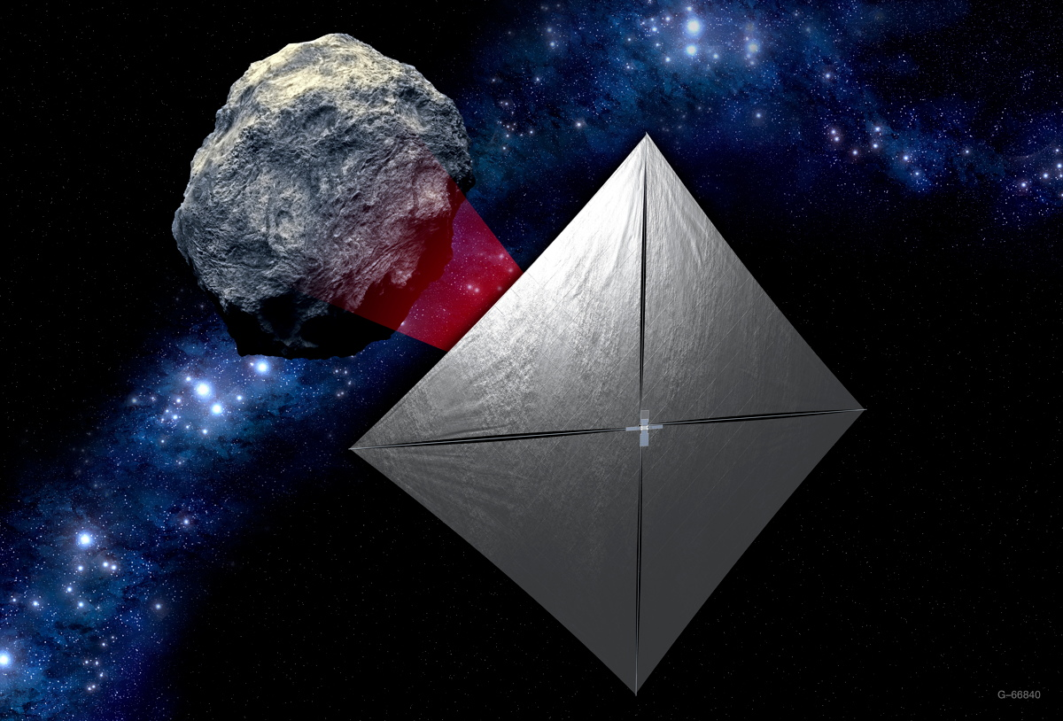 Near-Earth Asteroid Scout (NEA Scout) is a 2014 mission concept by NASA to analyze, design, develop, and fly a controllable low-cost CubeSat solar sail spacecraft capable of encountering near-Earth asteroids (NEA). The goal is to develop a capability that would close knowledge gaps at a near-Earth asteroid (NEA) in the 1-100 m range identified for human exploration. NASA's Marshall Space Flight Center (MSFC) and Jet Propulsion Laboratory (JPL) are jointly examining this mission concept. It would be a secondary payload on the first planned flight of the Space Launch System (SLS) scheduled to launch in December 2017.